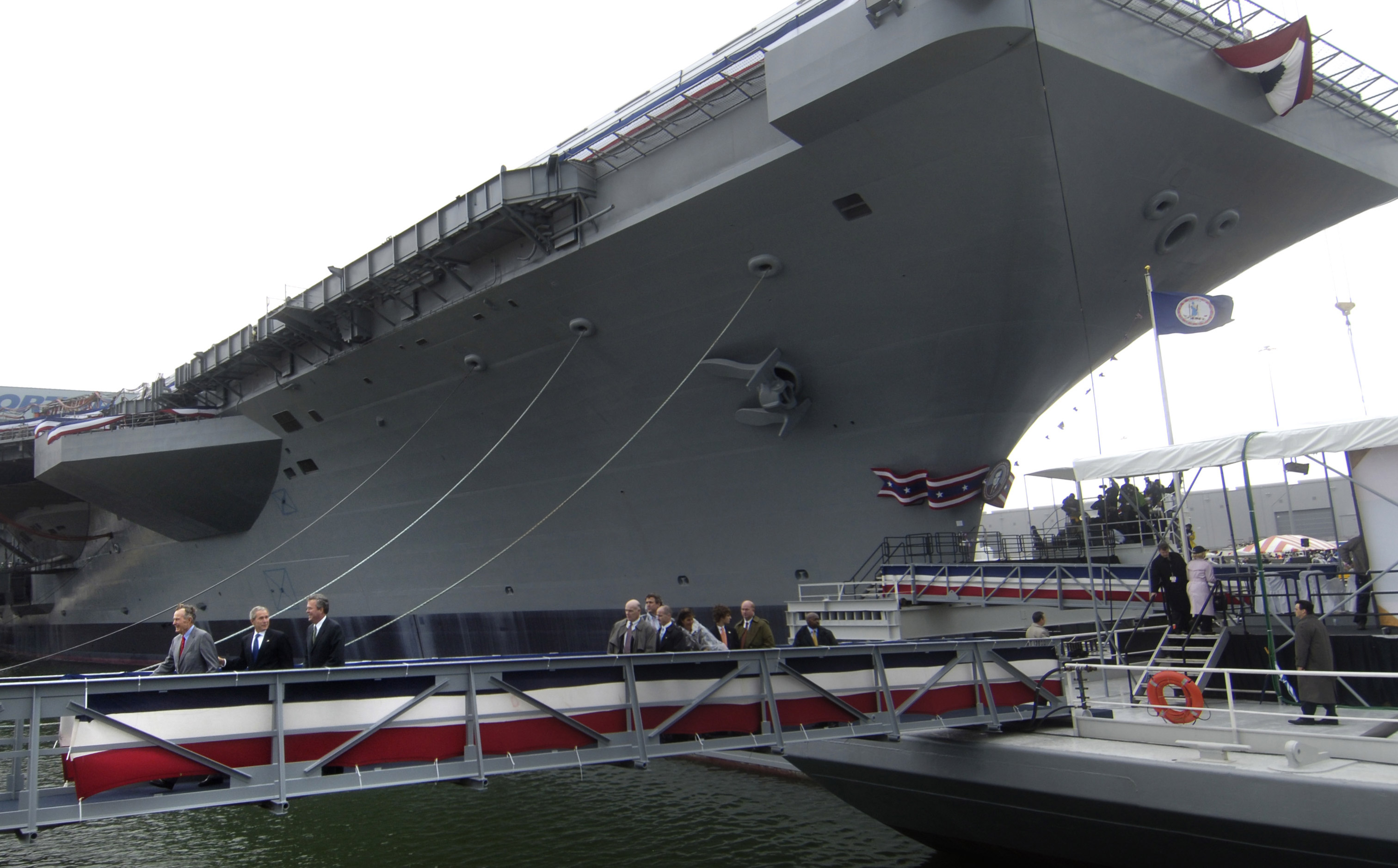 George W., George Herbert Walker and Governor Jeb Bush moving away from then-christened carrier vessel USS George H. W. Bush (CVN-77).